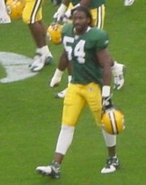 The team leaving the field after the inter-squad scrimmage.